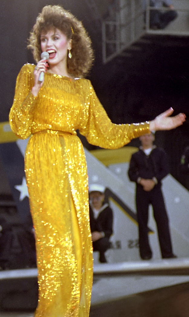 Marie Osmond sings for the crew of the aircraft carrier USS RANGER (CV-61) during the special Suzanne Somers show aboard the carrier.